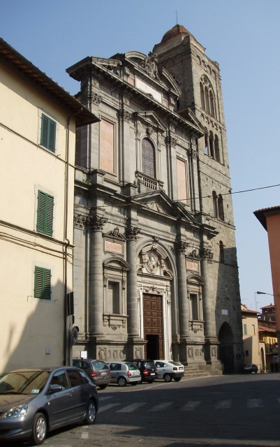 Fassade of cathedral in Pescia, Italy